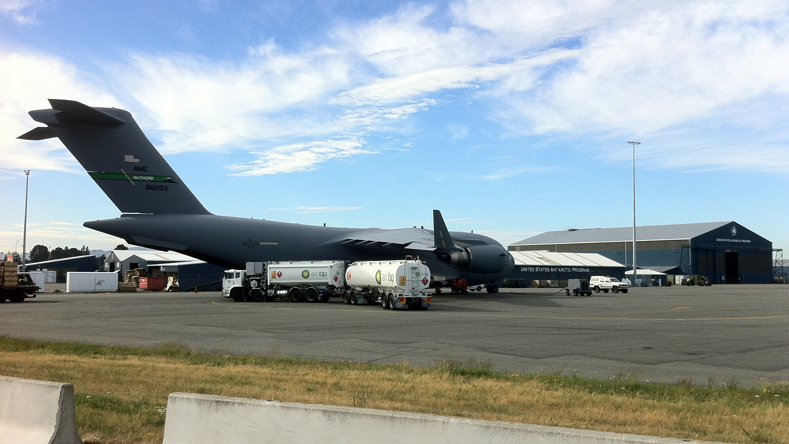 AMC McChord 88203 (U.S. Air Force 8203, 62nd AW, 446th AW), a Boeing C-17 Globemaster III servicing the United States Antarctic Program at Christchurch International Airport, Christchurch, New Zealand